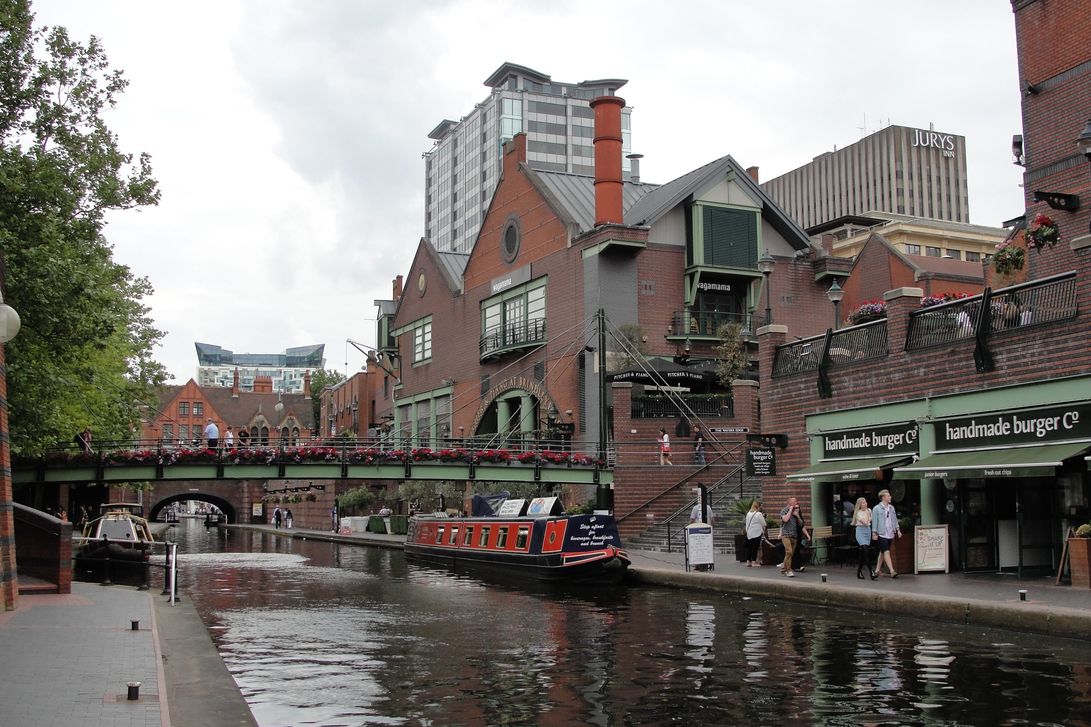 View down the canal to the area with bars and restaurants